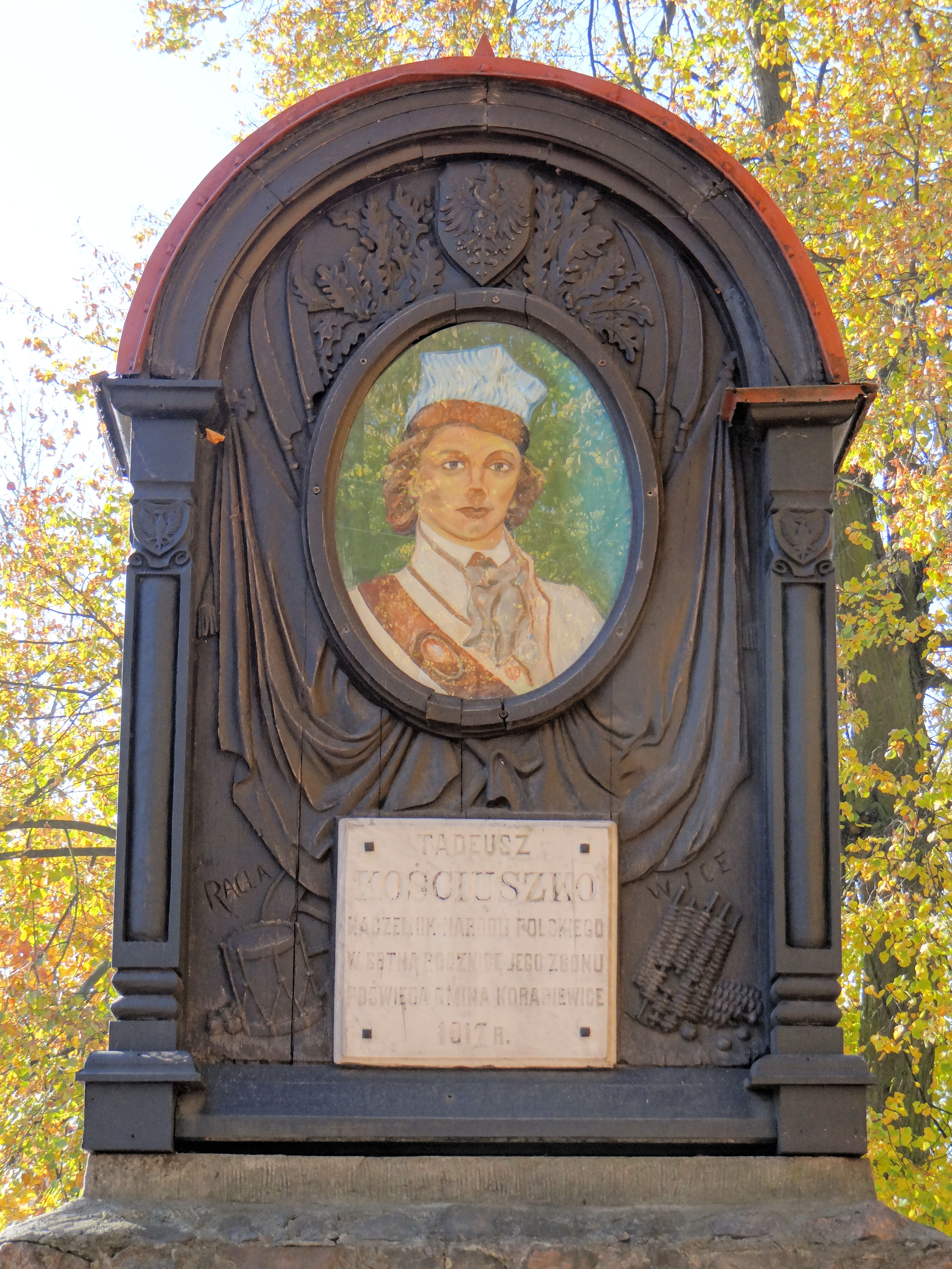 Memorial of Tadeusz Kościuszko in Puszcza Mariańska